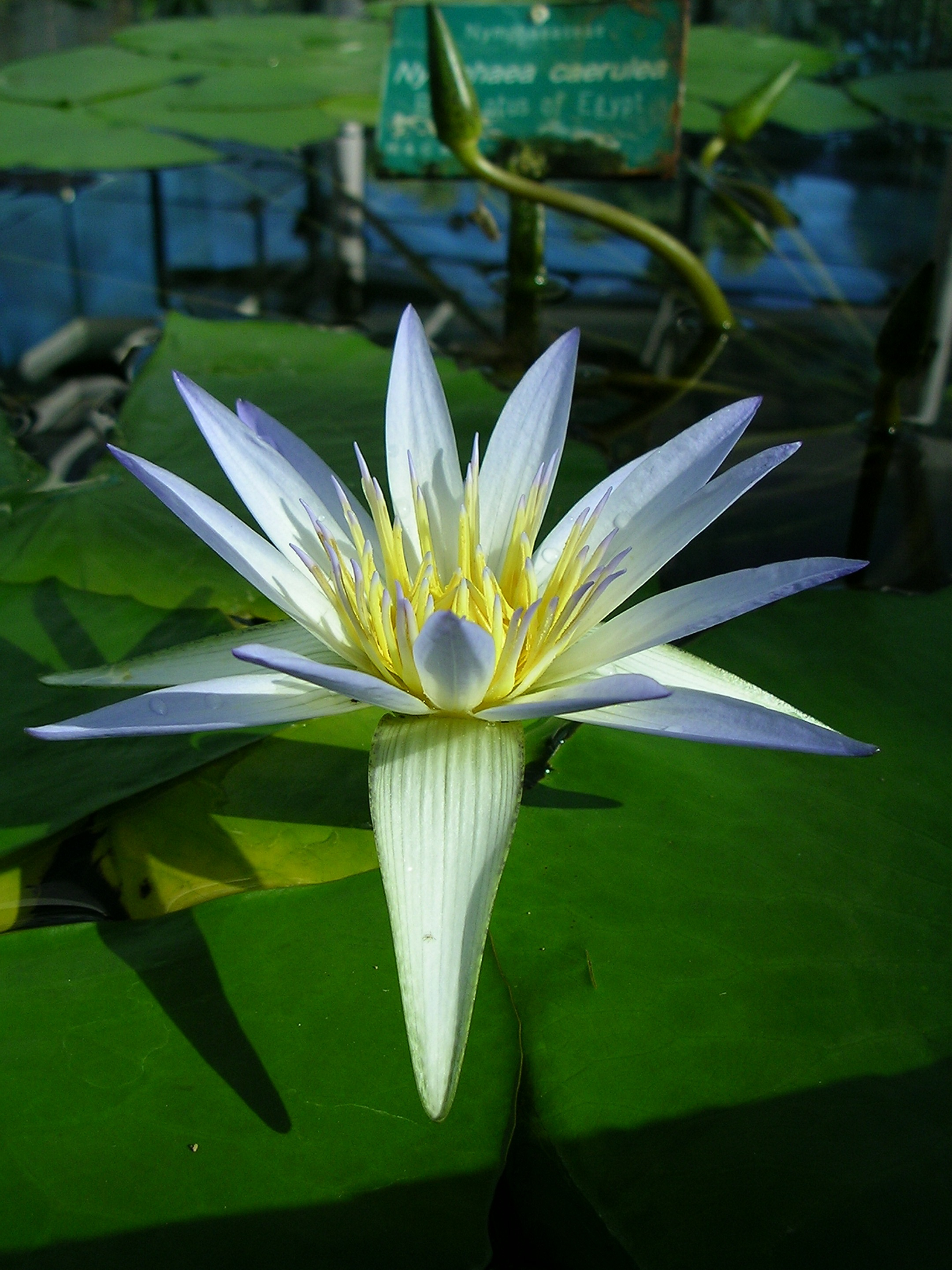 While strolling through the Adelaide Botanic Gardens last week I came across this Blue Lotus of Egypt (Nymphaea caerulea). The lotus features prominently in Egyptian reliefs and artwork, particularly on the walls of the Temple of Karnak and is thought to have been used as a narcotic. In the documentary ‘Mystery of the Cocaine Mummies’ Rosalie David, Keeper of Egyptology at the Manchester Museum states: “The lotus was a very powerful narcotic which was used in ancient Egypt and presumably, was widespread in this use, because we see many scenes of individuals holding a cup and dropping a lotus flower into the cup which contained wine, and this would be a way of releasing the narcotic. “The ancient Egyptians certainly used drugs. As well as lotus they had mandrake and cannabis, and there is a strong suggestion the also used opium. “So although it very surprising to find cocaine in mummies, the other elements were certainly in use.” Read more about the Ancient Egyptians’ Use of Intoxicants at Talking Pyramids.